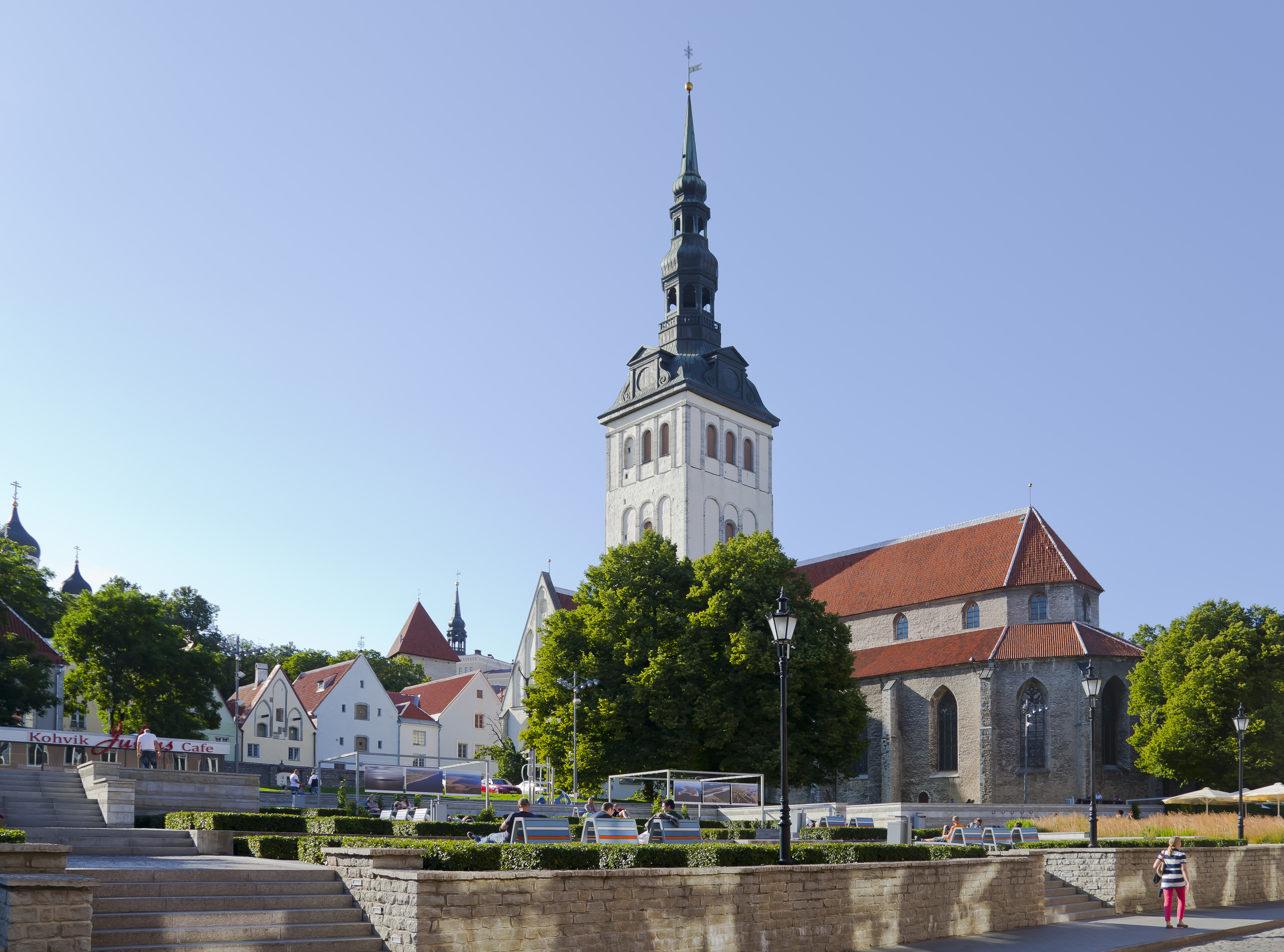 St. Nicholas' Church, Tallinn, Estonia